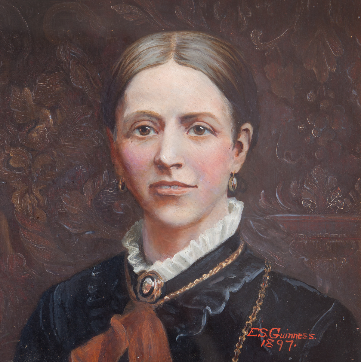 Elizabeth Sarah Guinness who died in 1934; Caroline Ashurst Biggs; Girton College, University of Cambridge; Published in the US in 1893 to the Worlds show in Chicago